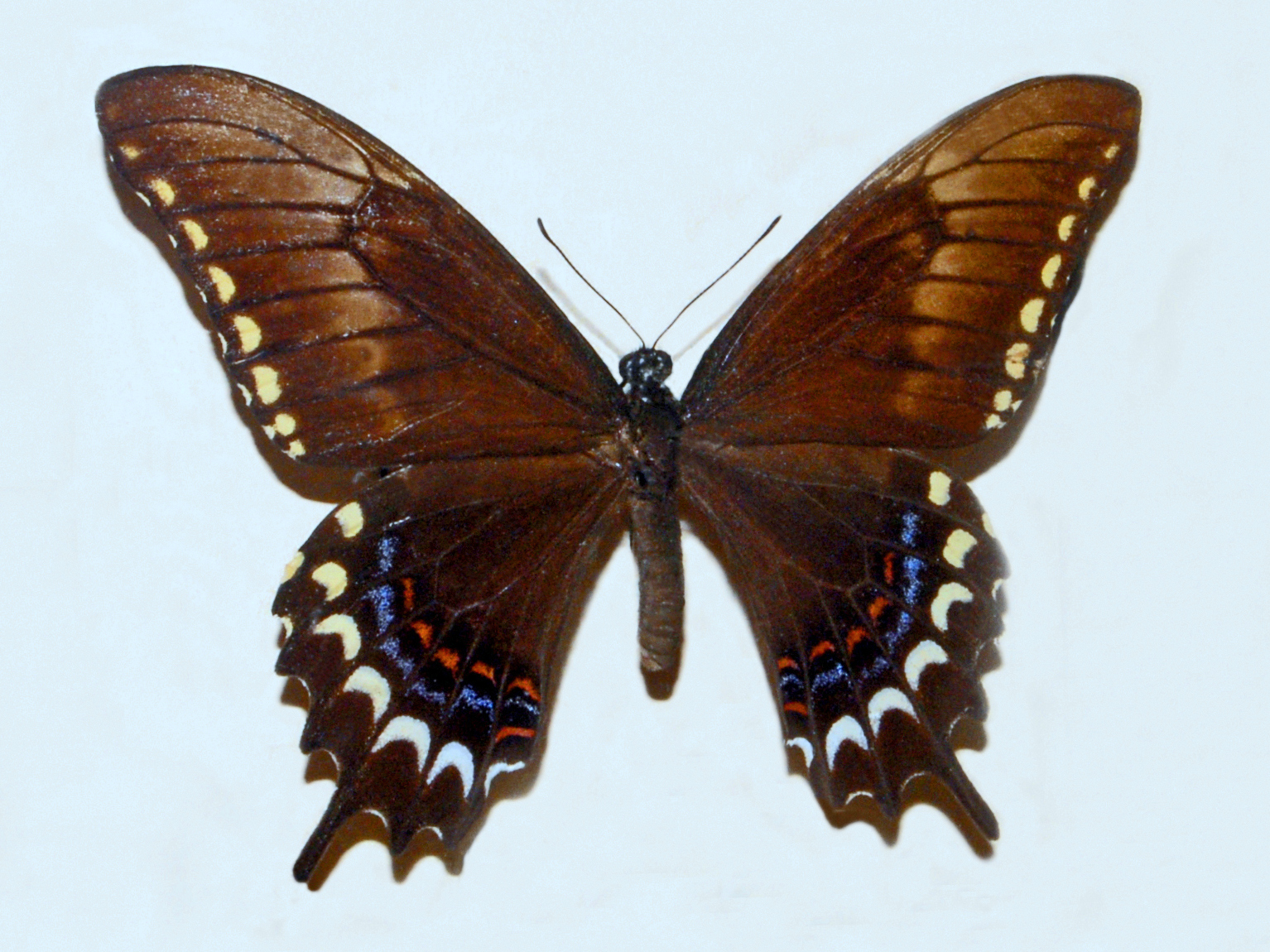 Mounted specimen of Papilio astyalus on display at Museo di Scienze Naturali Enrico Caffi, Bergamo